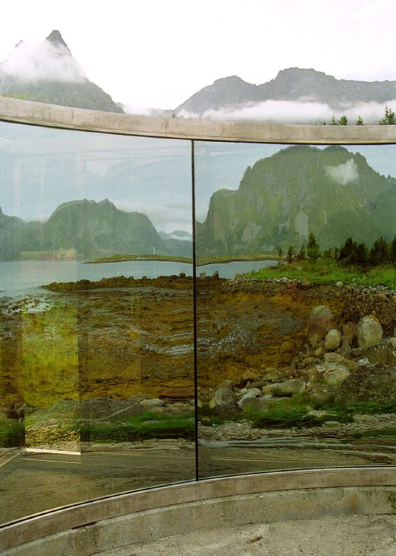 A mirror in the mountains